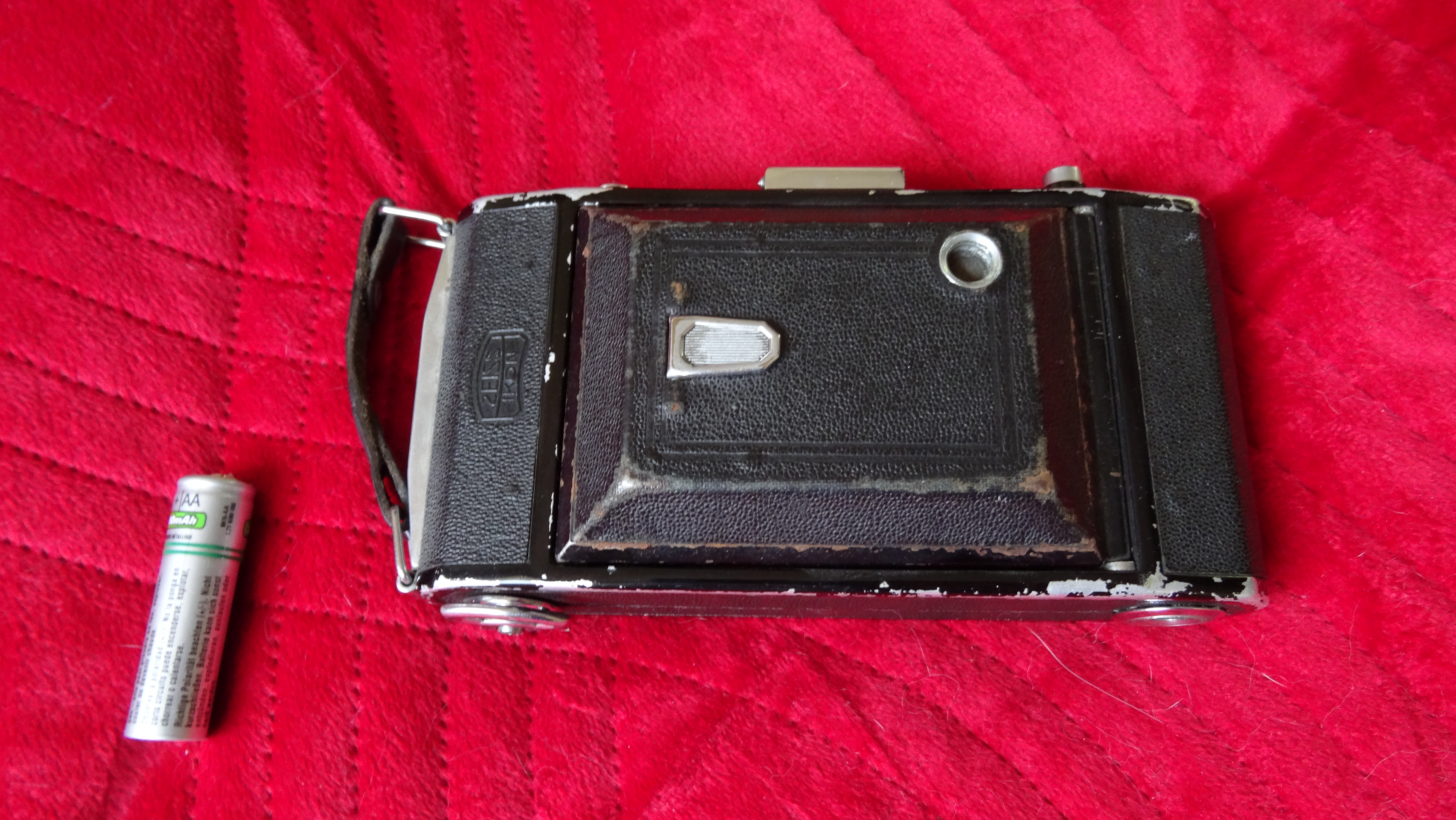 Zeiss Ikon Nettar 515-2 camera (1937).